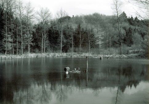 Witches ponds near by Spreitgen Nümbrecht